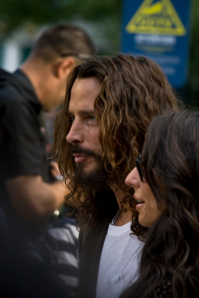 At the premiere of "Machine Gun Preacher", directed by Marc Forster, during the Toronto International Film Festival, 2011.